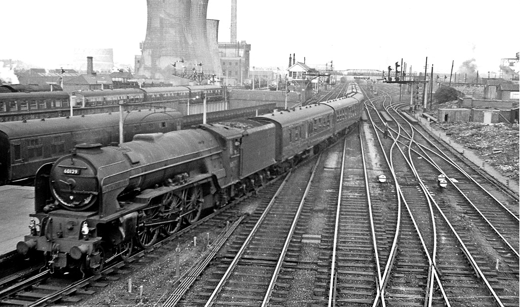 Up express entering Darlington Bank Top station. View northward from the footbridge, towards Durham, Newcastle, Bishop Auckland etc.; ex-North Eastern major ECML junction. The Newcastle - Bristol express, headed by A1 Pacific No. 60129 'Guy Mannering', is curving off the Up Fast line and crossing the Down Fast Independent line, into No. 1 platform line. The lines directly underneath are the Down and Up Independent Fast and Slow lines, also those leading into Bank Top Goods Yard. In the middle is Darlington North Box, opposite which is the entry to the large Locomotive Depot - hidden in the smoke-haze on the right. Beyond the express and the vans in the Dock line a Diesel multiple-unit (probably for Bishop Auckland) stands in Bay Platform 5 and beyond that is a Down express at Platform 6. Over on the far side are extensive carriage-sidings and in the distance the Power Station